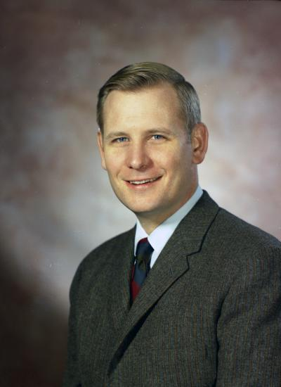 Representative William M. Polk, 1971